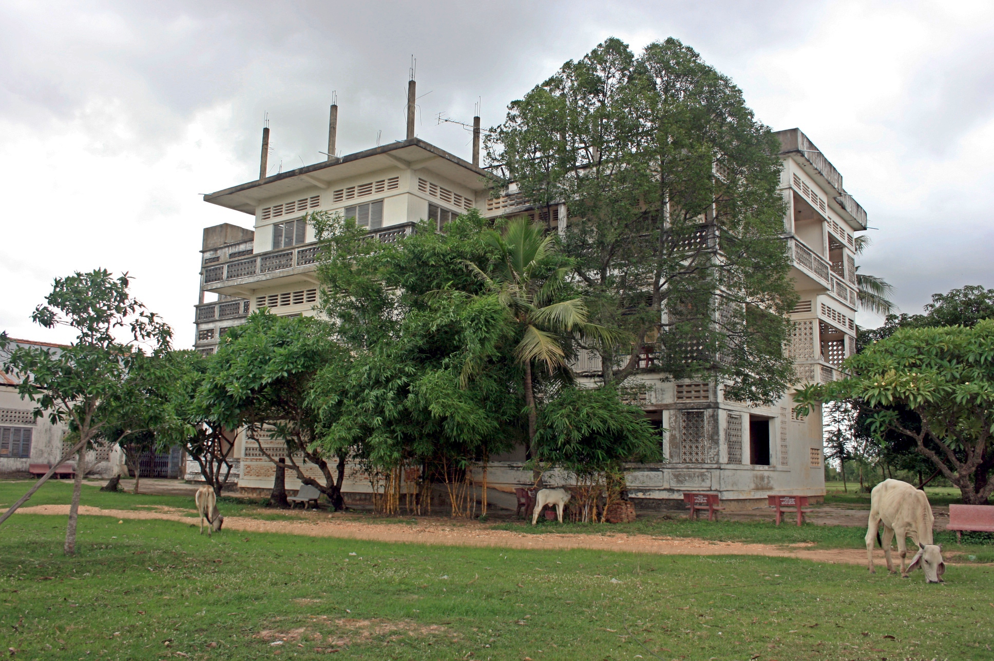 Photograph of the former House of Ta Mok in the town of Takéo, Takéo Province, Cambodia. The house is situated on a small island in the lake north of the town center; the photographs showns the south side of the house.